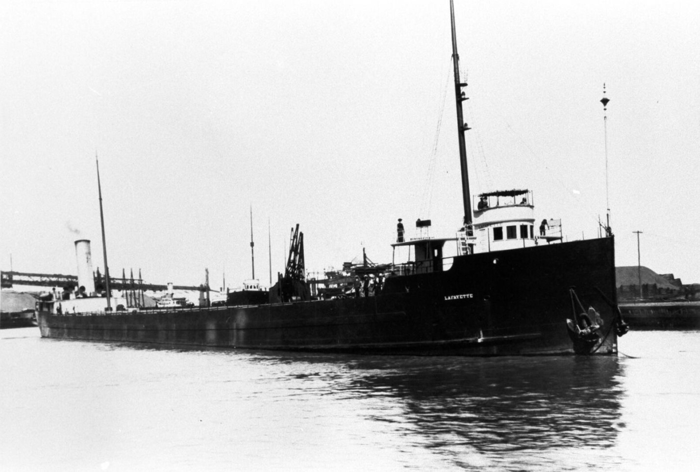 The steamer Lafayette in Conneaut, Ohio